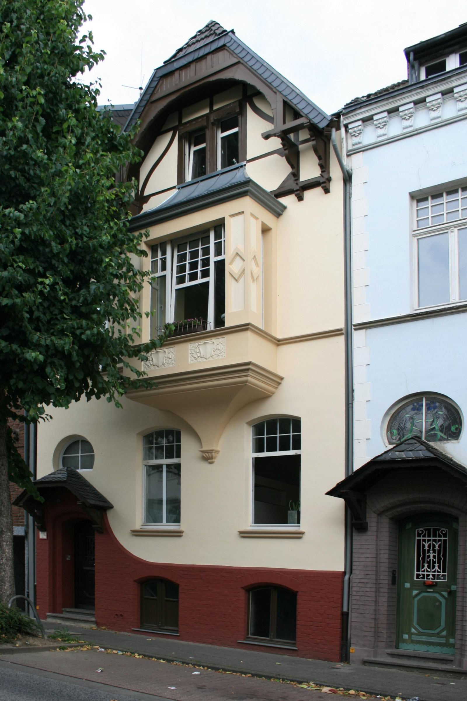 Cultural heritage monument No. W 023 in Mönchengladbach